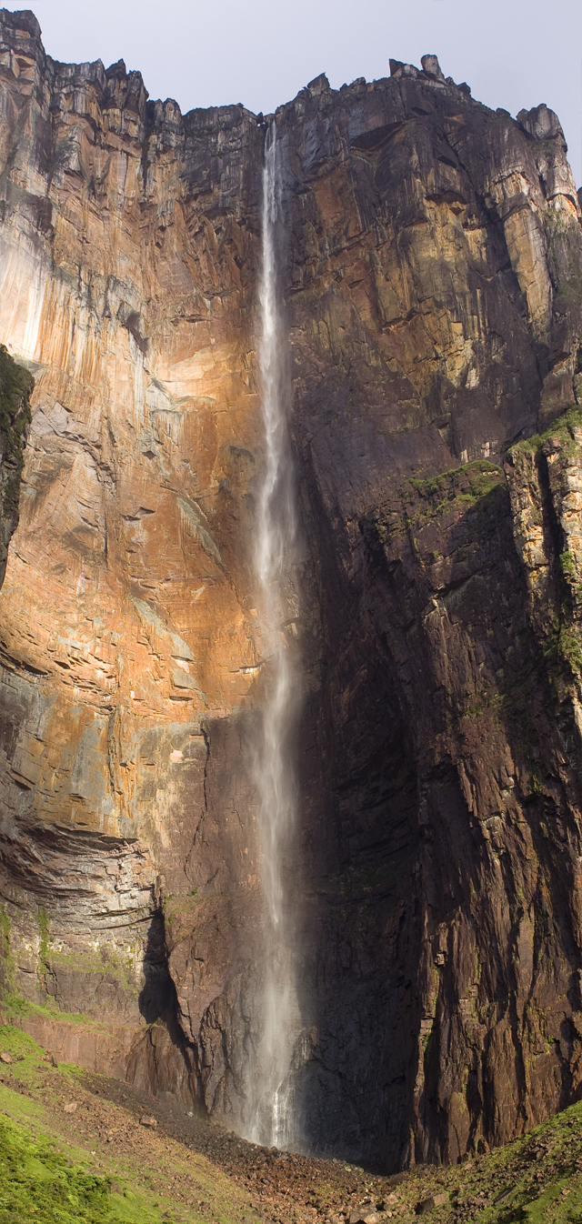 Salto Ángel at the end of the dry season, official name: Kerepakupai merú